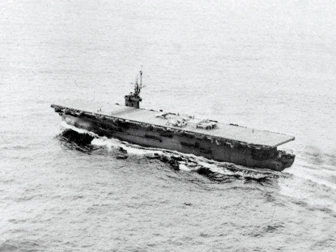 The U.S. Navy escort carrier USS Kalinin Bay (CVE-68) underway at sea, circa in 1944.